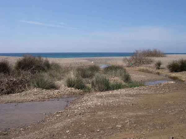 Bufo viridis, breeding site near the sea west of Chios (Chios, Greece)